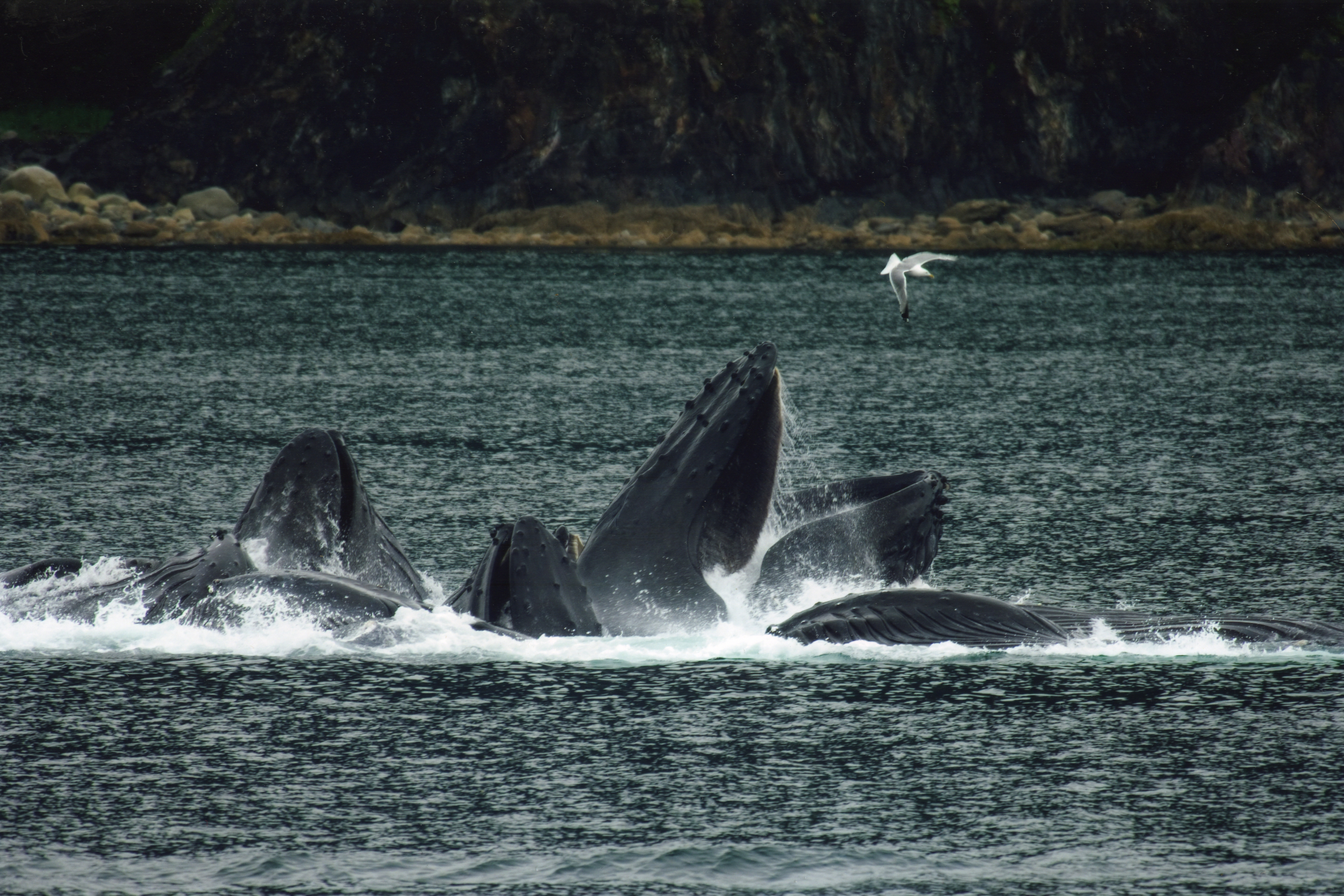 Humpback whales in North Pass between Lincoln Island and Shelter Island in the Lynn Canal north of Juneau, Alaska. This is a group of 15 whales that were bubble net fishing on 18 August 2007.